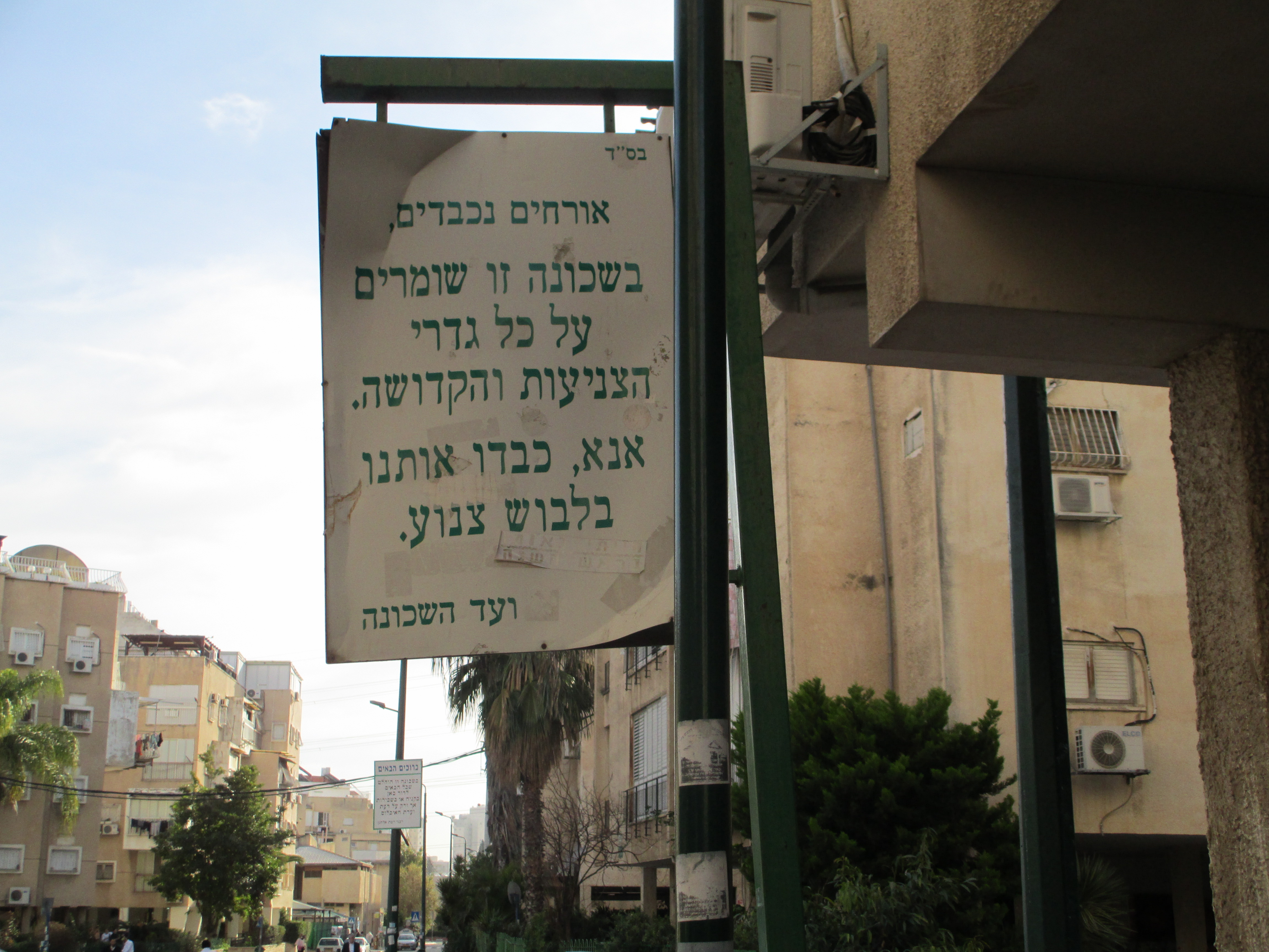 Plaque on modest clothes in Bnei Brak